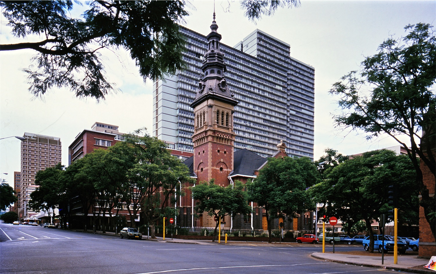 This media shows a South African Protected Site with SAHRA file reference 9/2/258/0021.